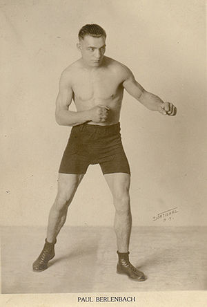 Paul Berlenbach was a boxer who won the world light heavyweight title.